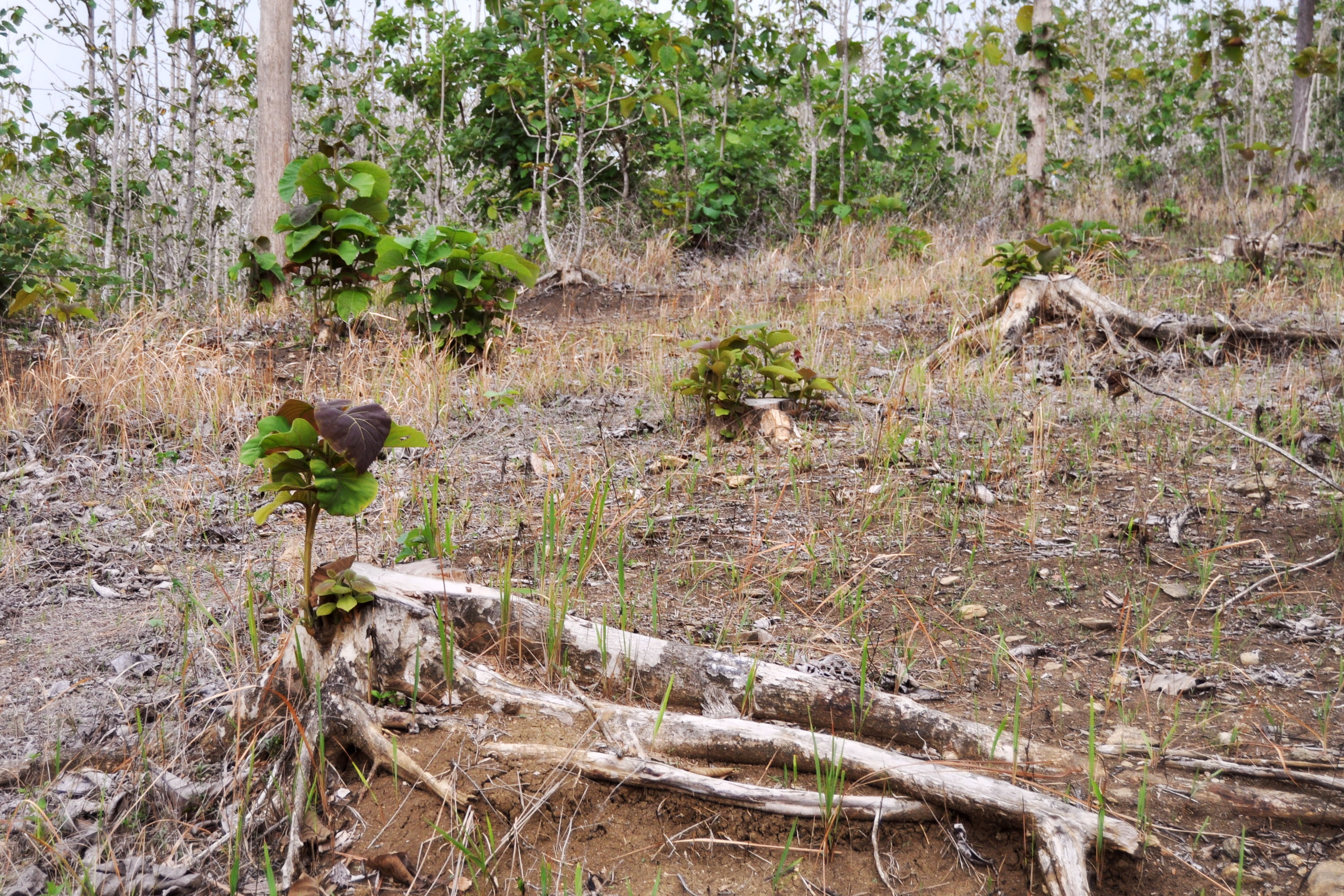 Teak (Tectona grandis) coppice. Blora, Central Java, Indonesia.